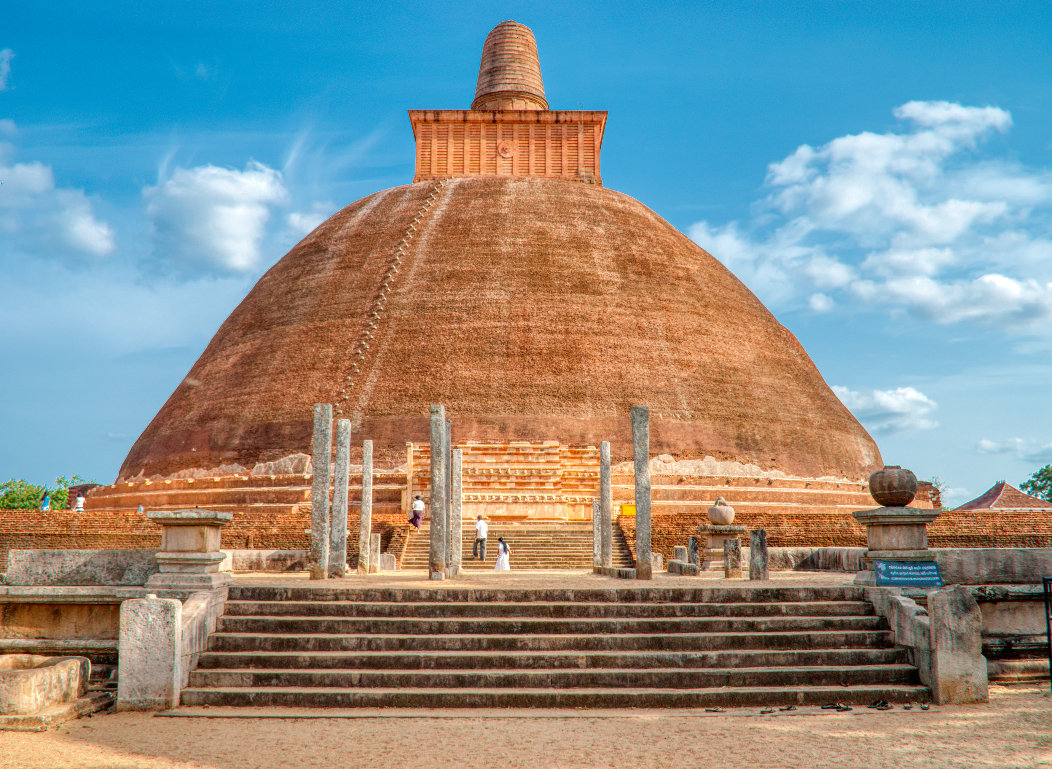 Jetavanaramaya Stupa as seen from the east side